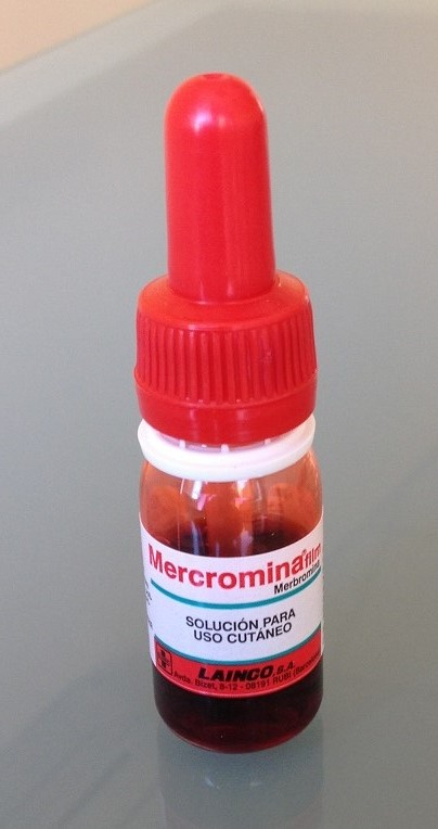 A Bottle of Mercromina (Merbromin 2%)